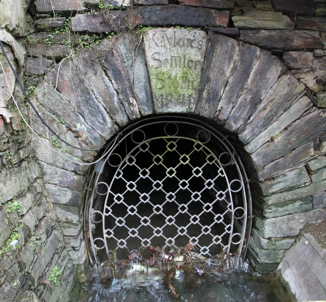 Schlema: adit of the "Markus Semmler mine".